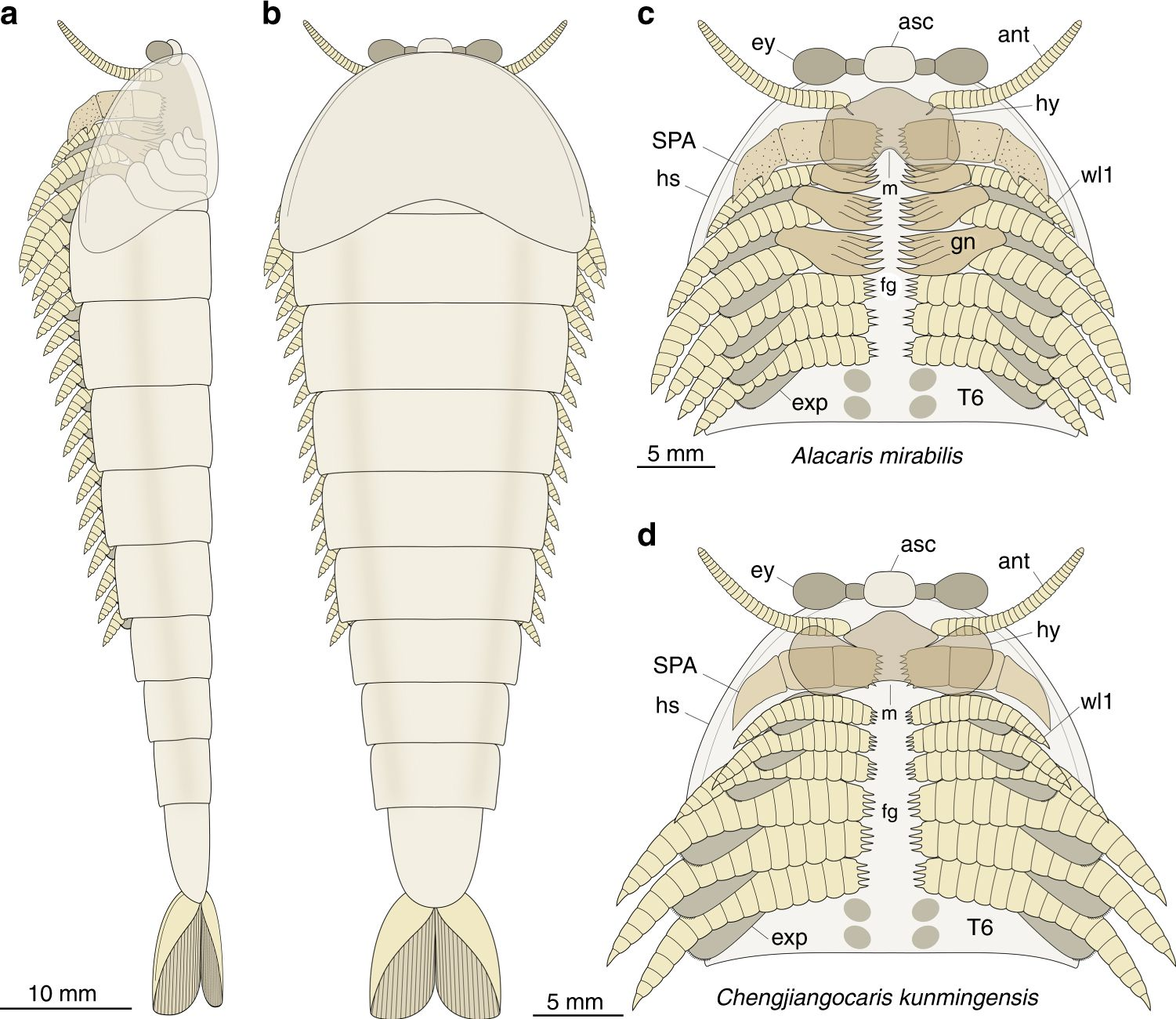 Morphological reconstruction of Alacaris mirabilis and Chengjiangocaris kunmingensis. a Full-body reconstruction of A. mirabilis in lateral view. b Full-body reconstruction of A. mirabilis in dorsal view. c Ventral view of the head and anterior trunk region of A. mirabilis showing gnathobasic protopodite ventral food groove. d Ventral view of the head and anterior trunk region of C. kunmingensis; note the differences in the morphology of the hypostome relative to A. mirabilis, and the presence of smaller gnathobasic endites on the proximal limbs. Abbreviations as in Fig. 1